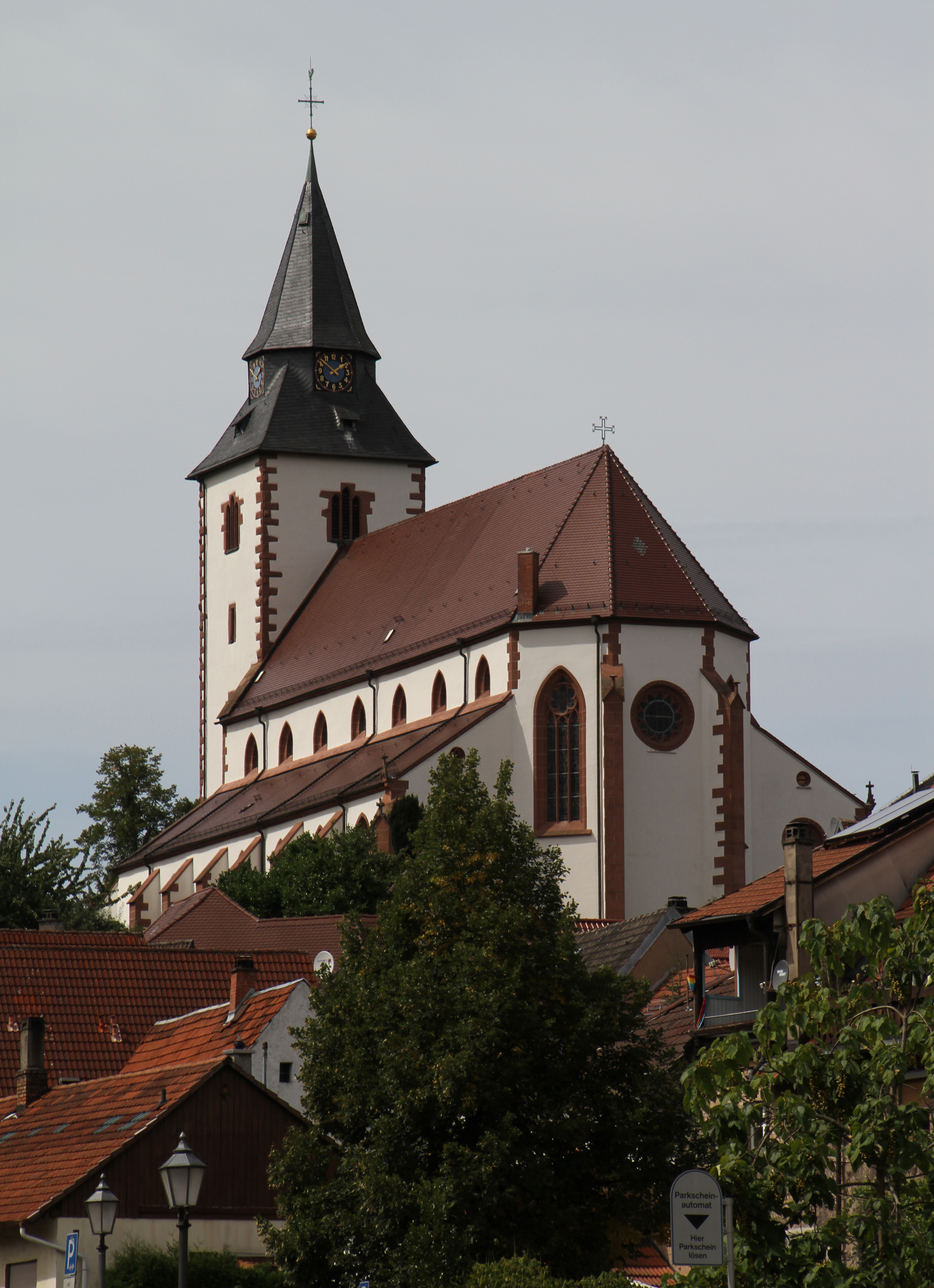 Church Liebfrauen in Gernsbach.